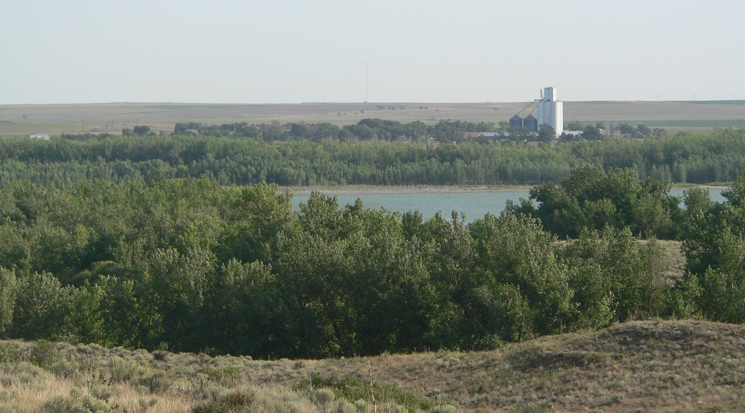 Enders, Nebraska, seen from generally southward across Enders Reservoir.